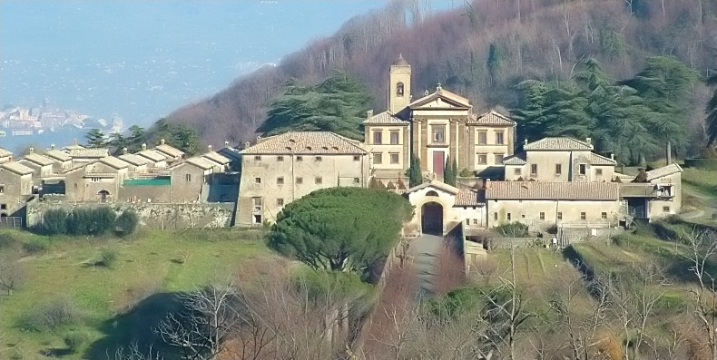 Monteporzio Catone, Eremo di Camaldoli